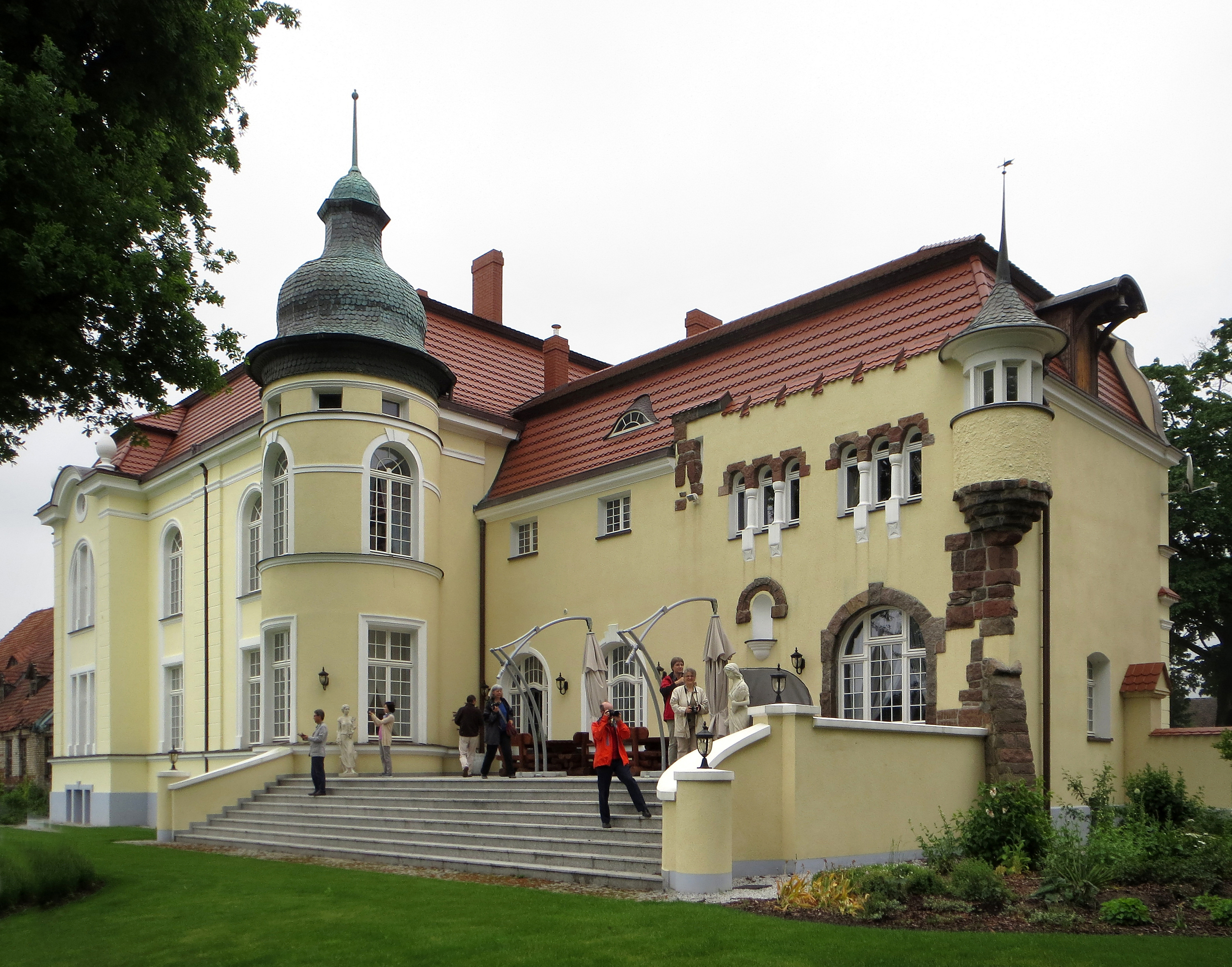 Trieglaff/Trzygłów manor